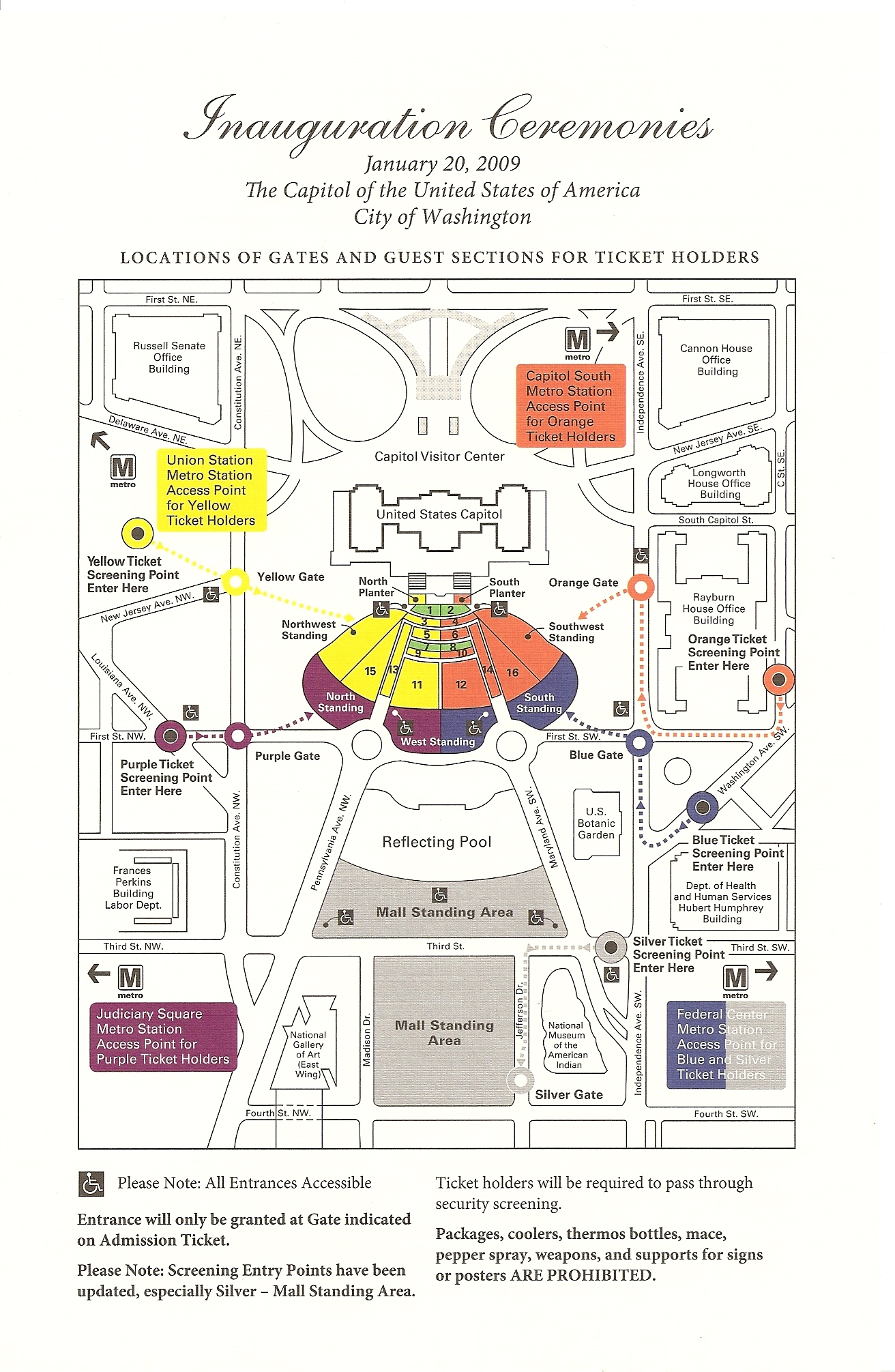 Map for the Inauguration of Barack Obama